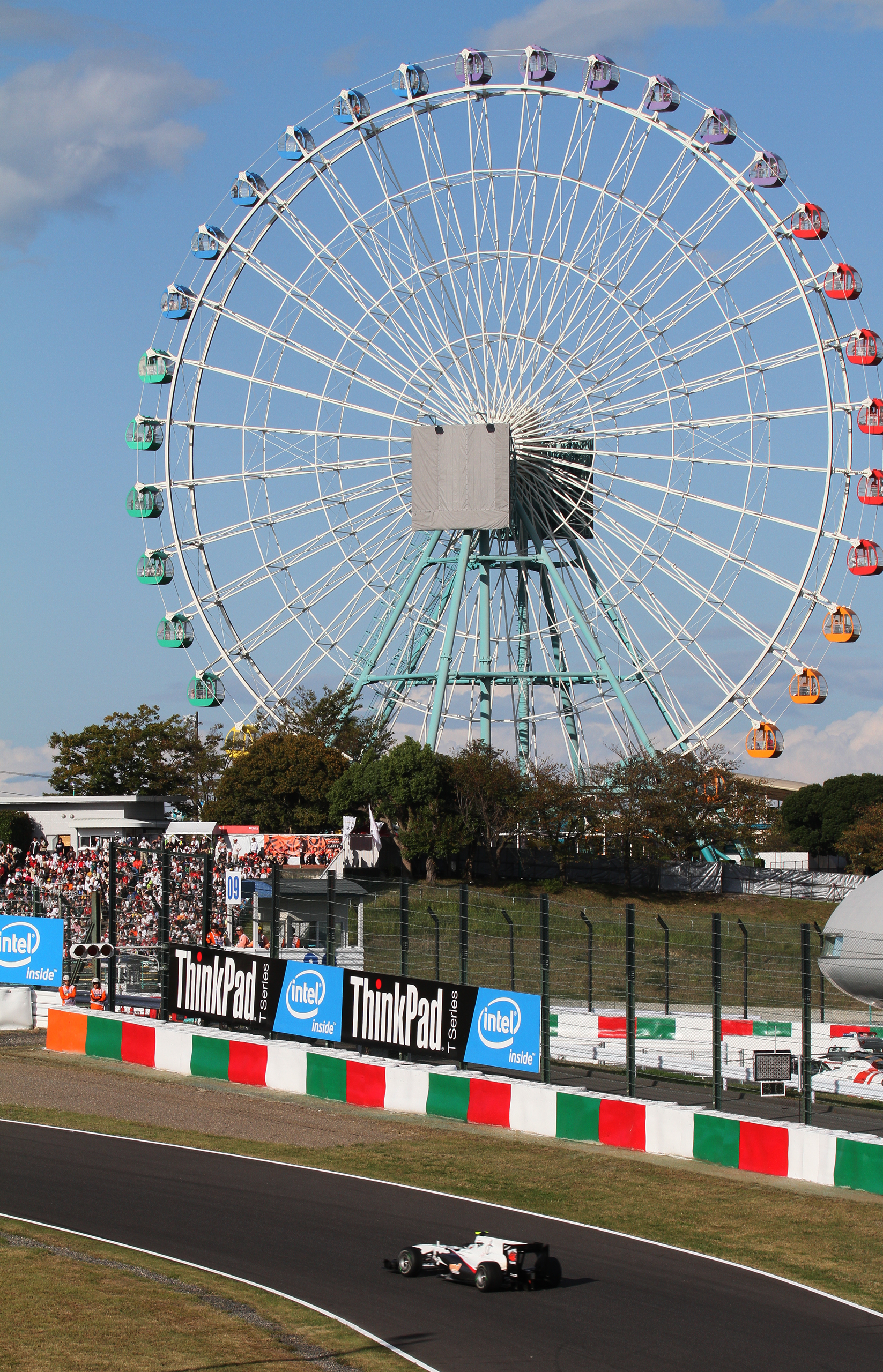 Formula One 2010 Rd.16 Japanese GP: Kamui Kobayashi (BMW Sauber) and Suzuka's ferris wheel, the Jupiter.